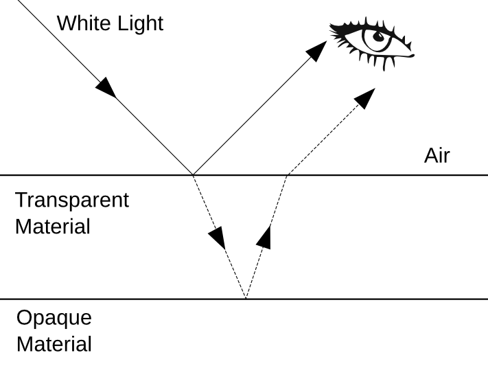 How light of a particular colour is cancelled out via. destructive interference.